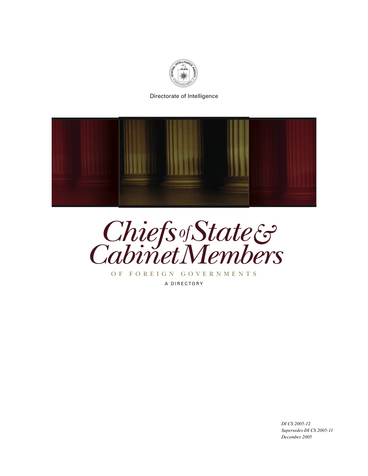 Cover of the CIA's Chiefs of State and Cabinet Members of Foreign Governments, from the December 2005 PDF.